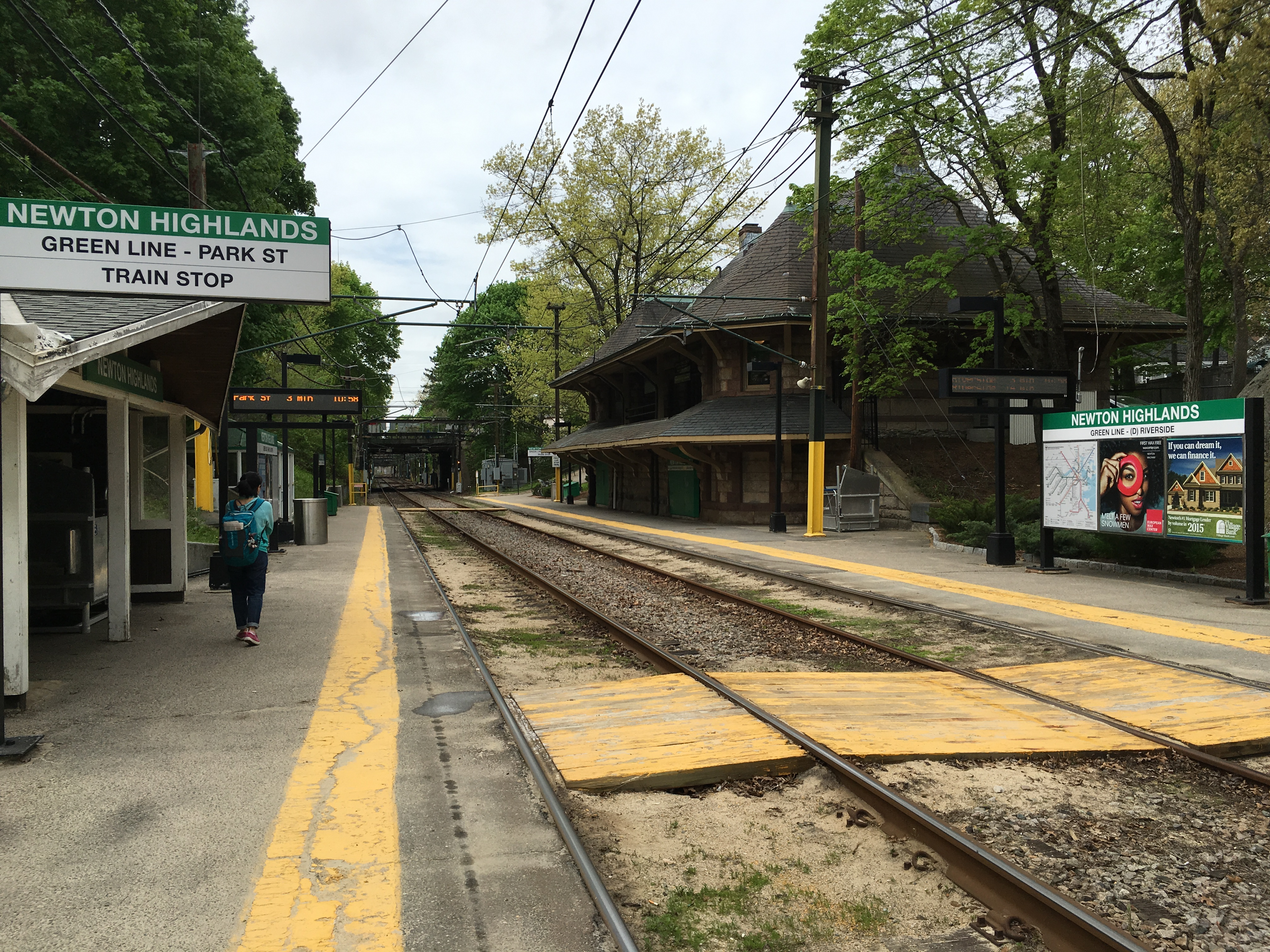 Newton Highlands station, in Newton, Massachusetts, on the MBTA Green Line D Branch. Looking west from inbound platform and showing old train station building designed by Richardson.